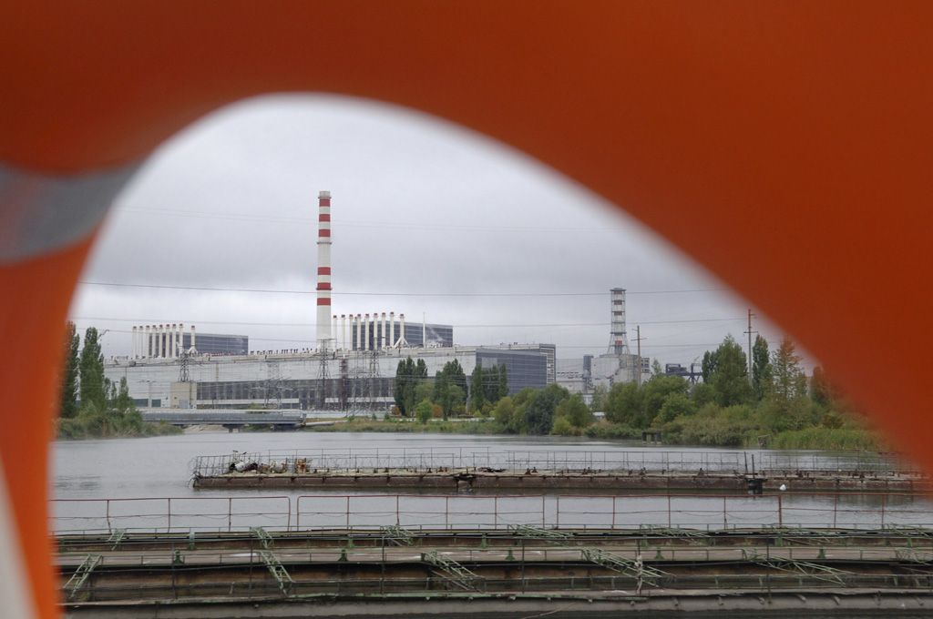 “Kursk Nuclear Power Plant”. A view of Kursk Nuclear Power Plant's power-generating units in the town of Kurchatov.